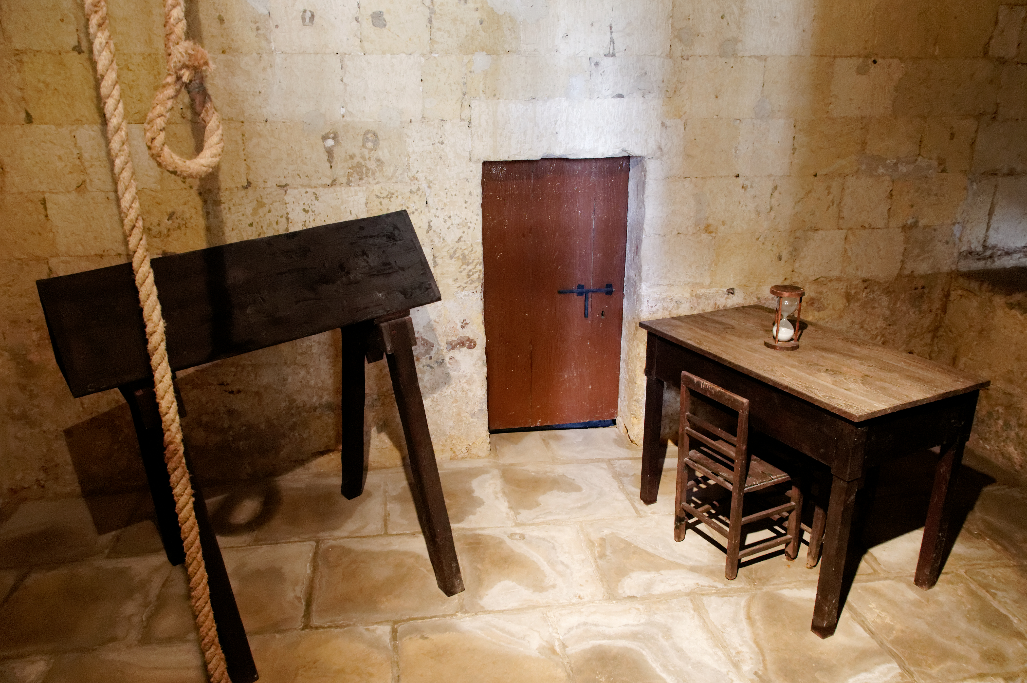 Torture room, Inquisitor's palace in Vittoriosa (Birgu), Malta.